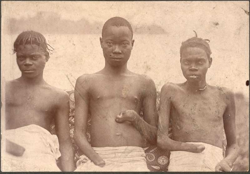 Some of the atrocities in CFS brought home by William Sheppard